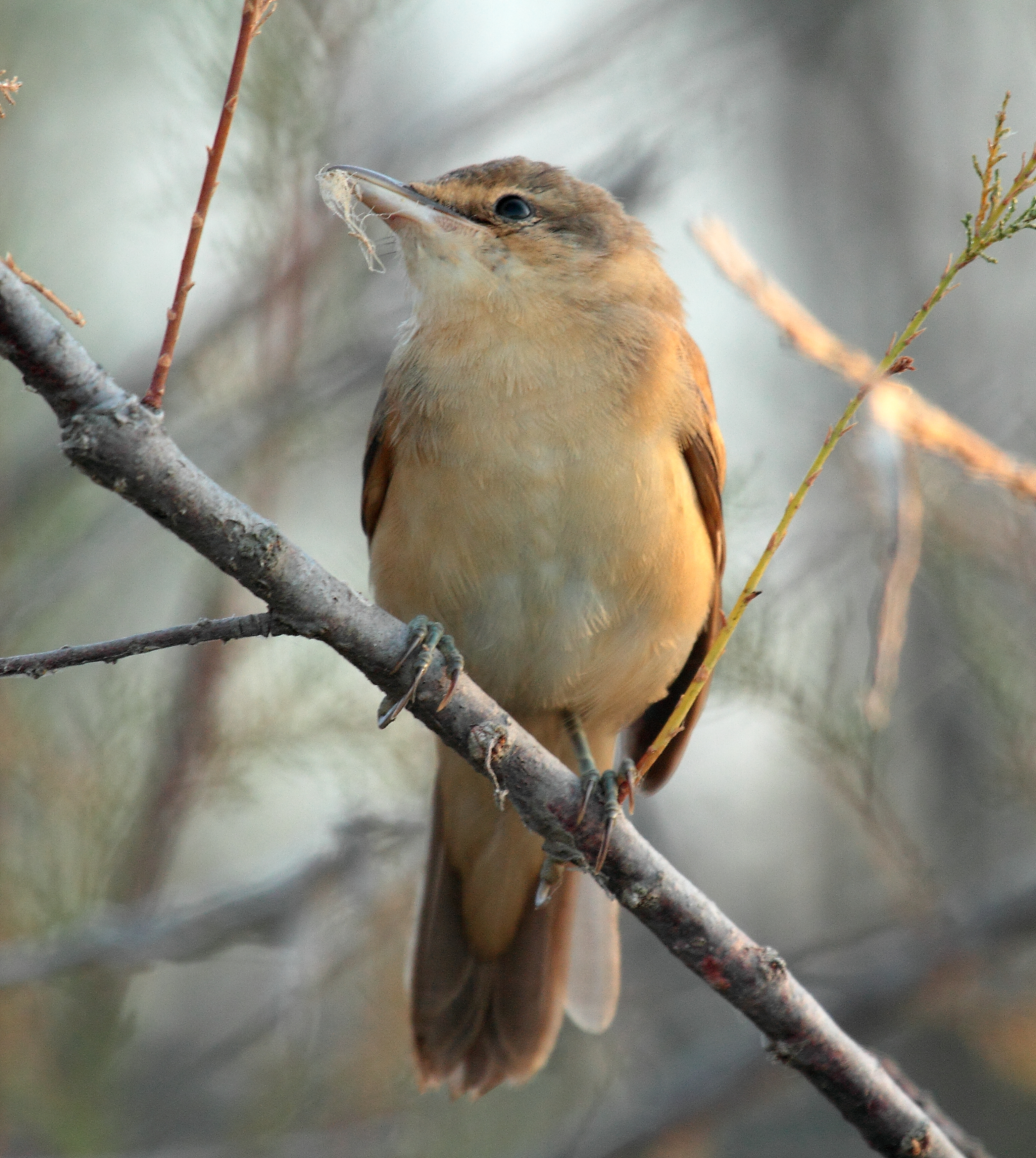 Great Reed Warbler (Acrocephalus arundinaceus, cat.)